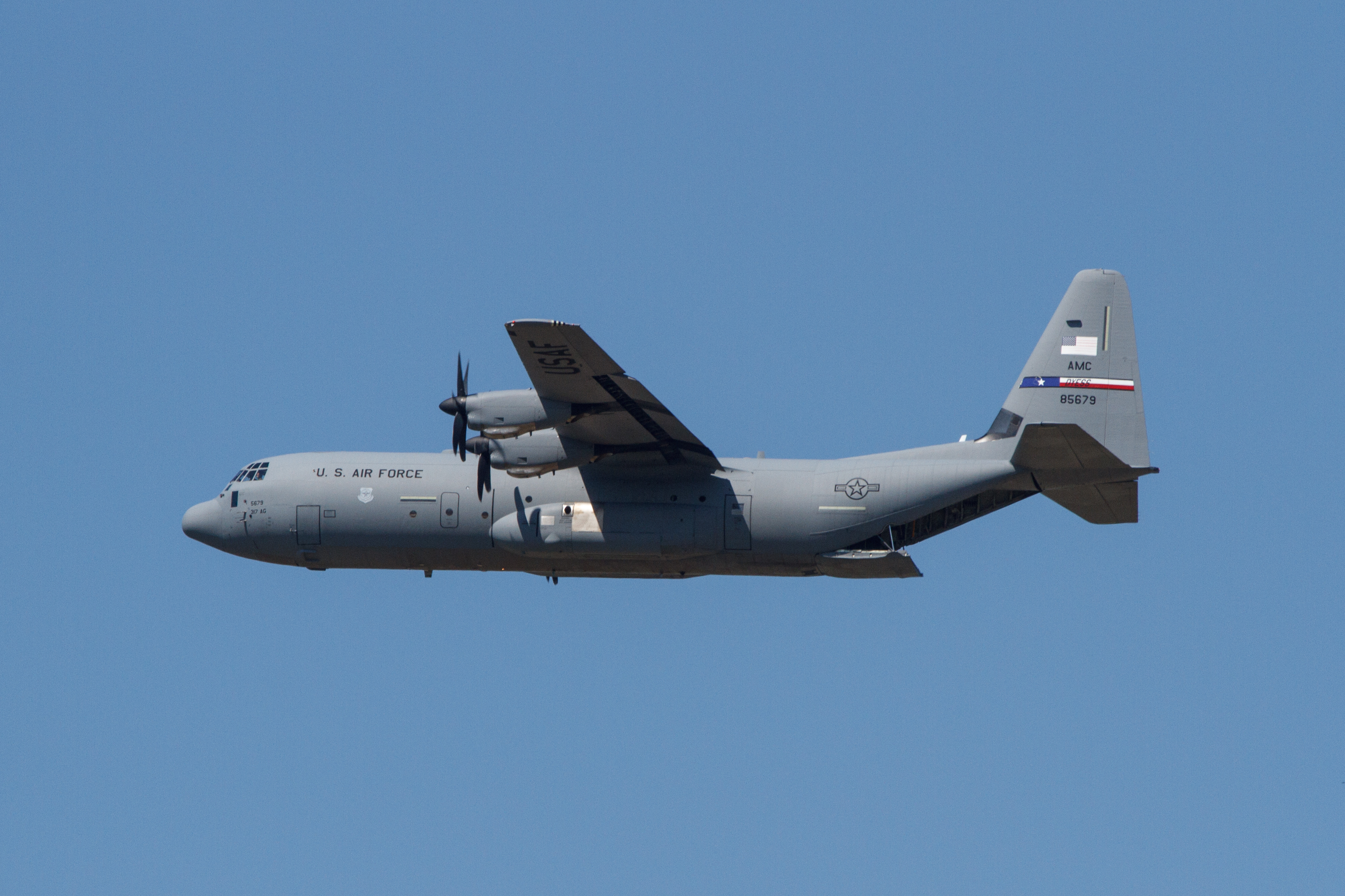 A C-130J Super Hercules performs air drop operations at the 2015 Dyes AFB Air Show.